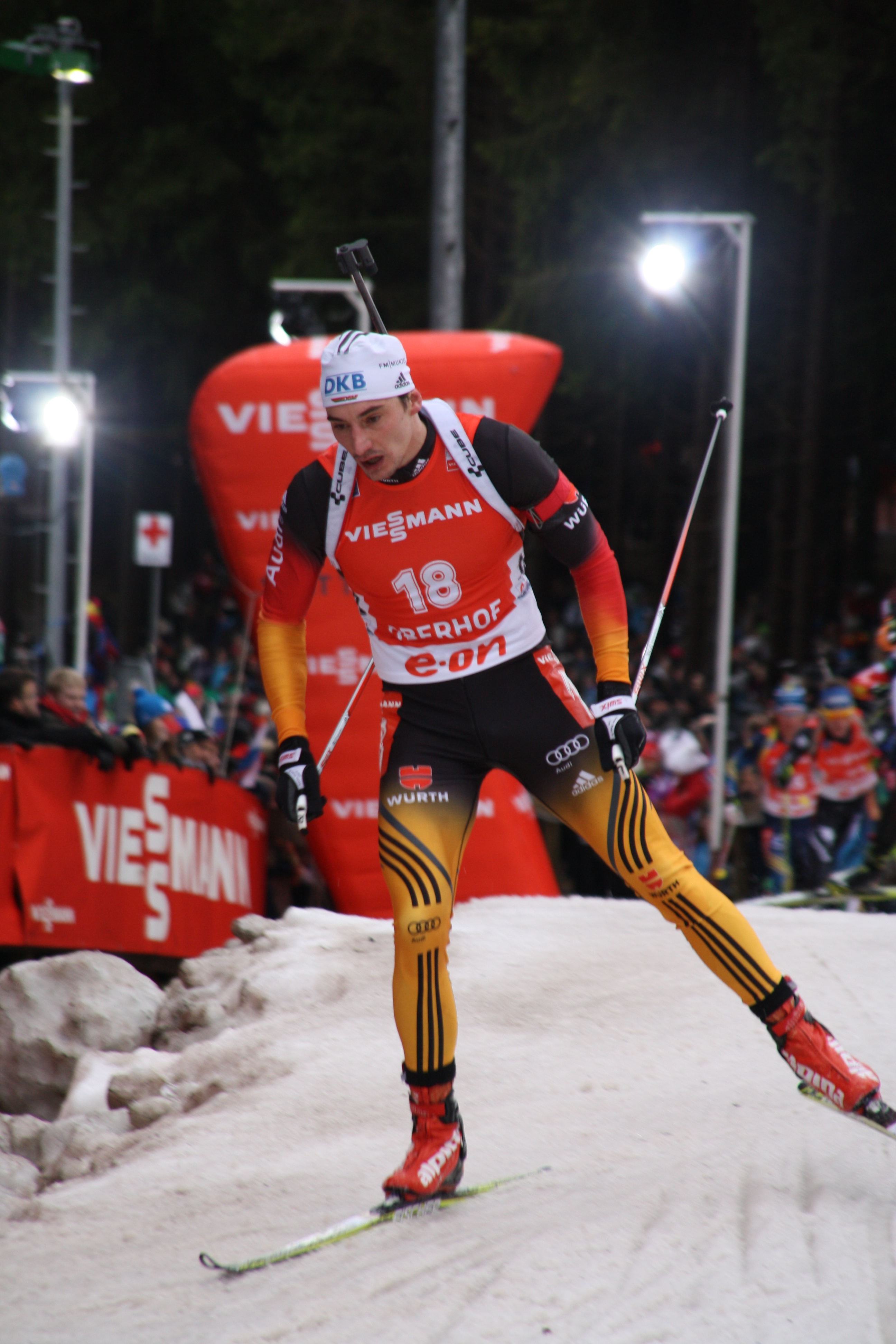 Biathlon World Cup Oberhof 2014 - Mens Pursuit